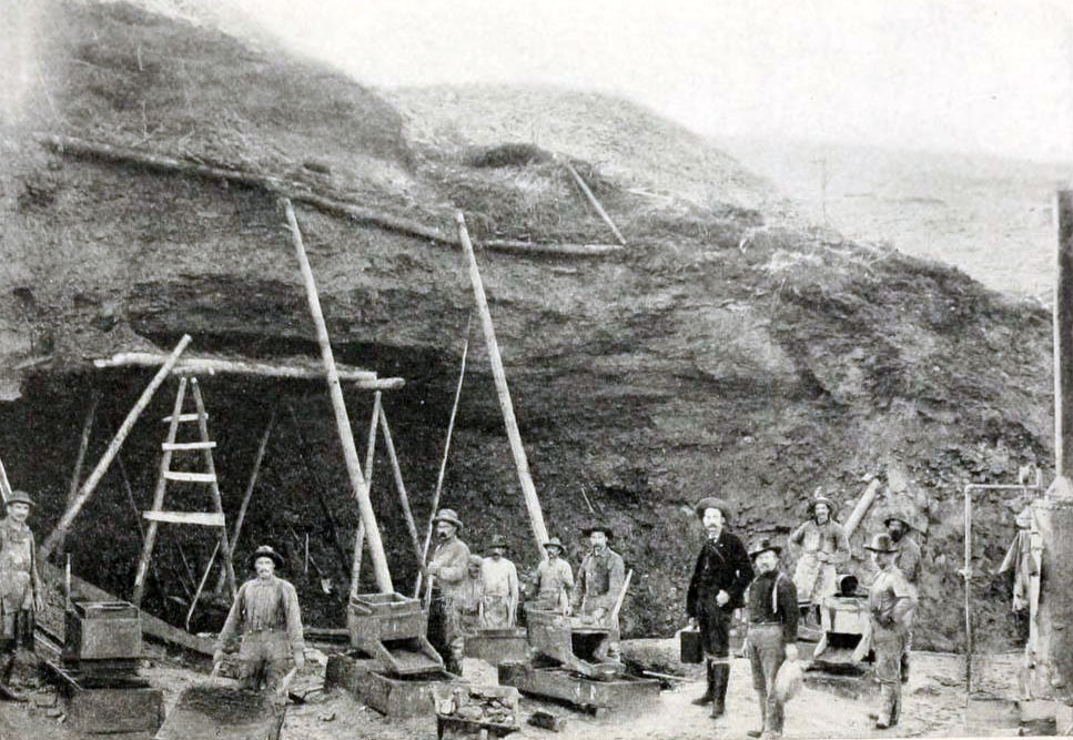 Mining operations in the Klondike, c.1899. "Washing out Gold with the Rocker"